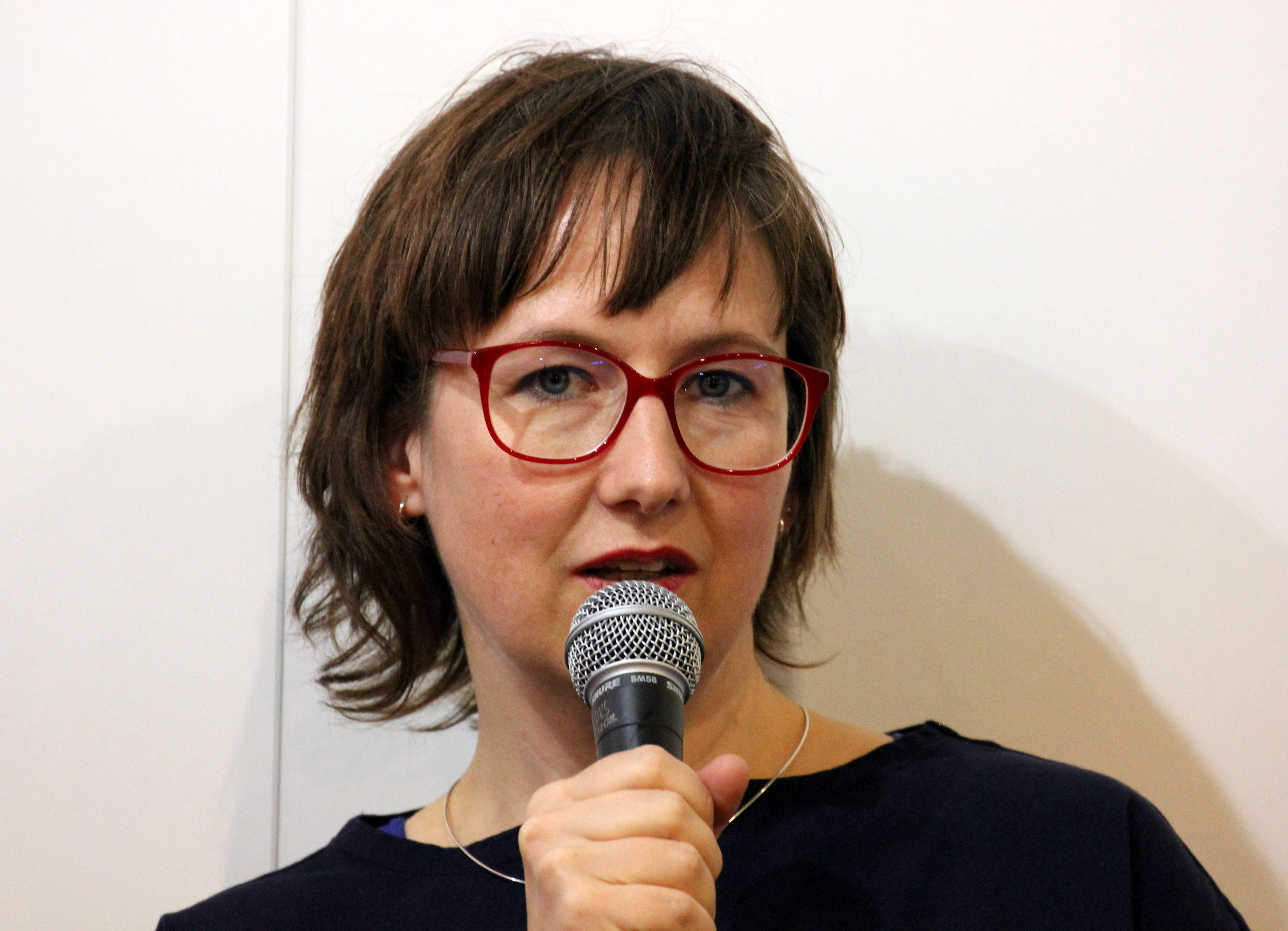 Verena Boos, Frankfurt Book Fair 2017